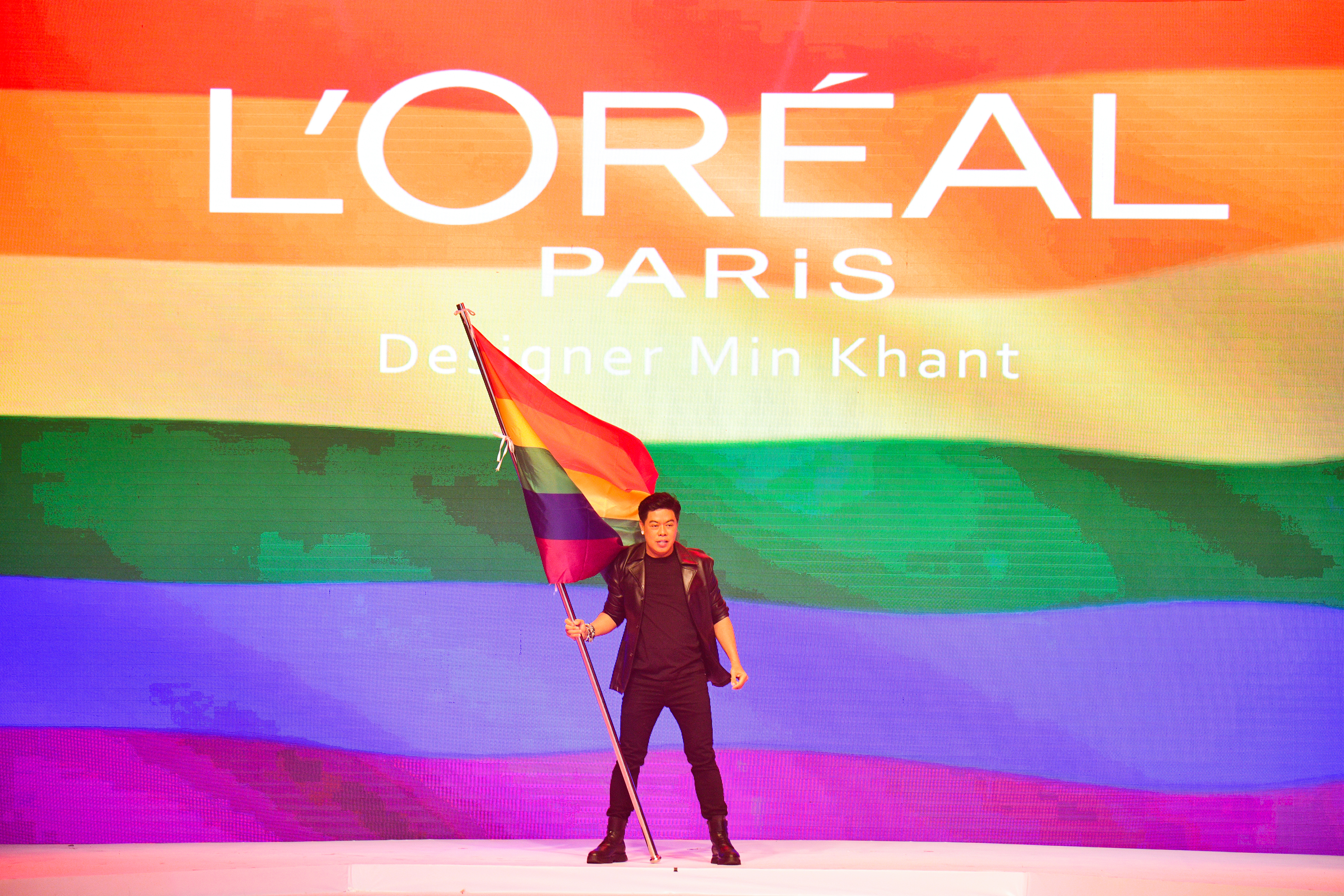 John Lwin is former model and LGBT rights activist who regarded as "Father of modeling" in Myanmar.